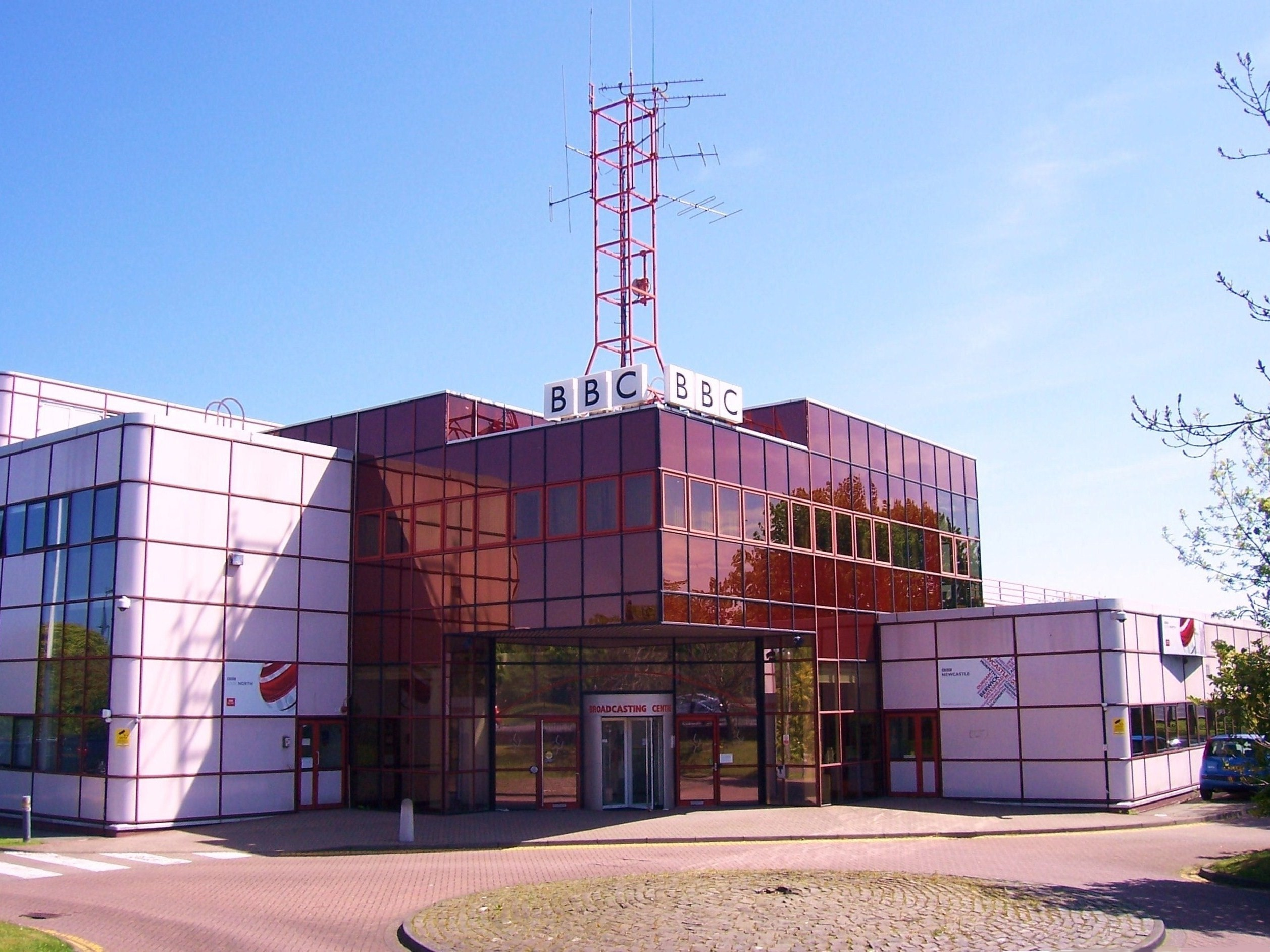 BBC Television and Radio studios in Newcastle known as 'The Pink Palace' and officially opened by HRH The Prince of Wales in 1988.